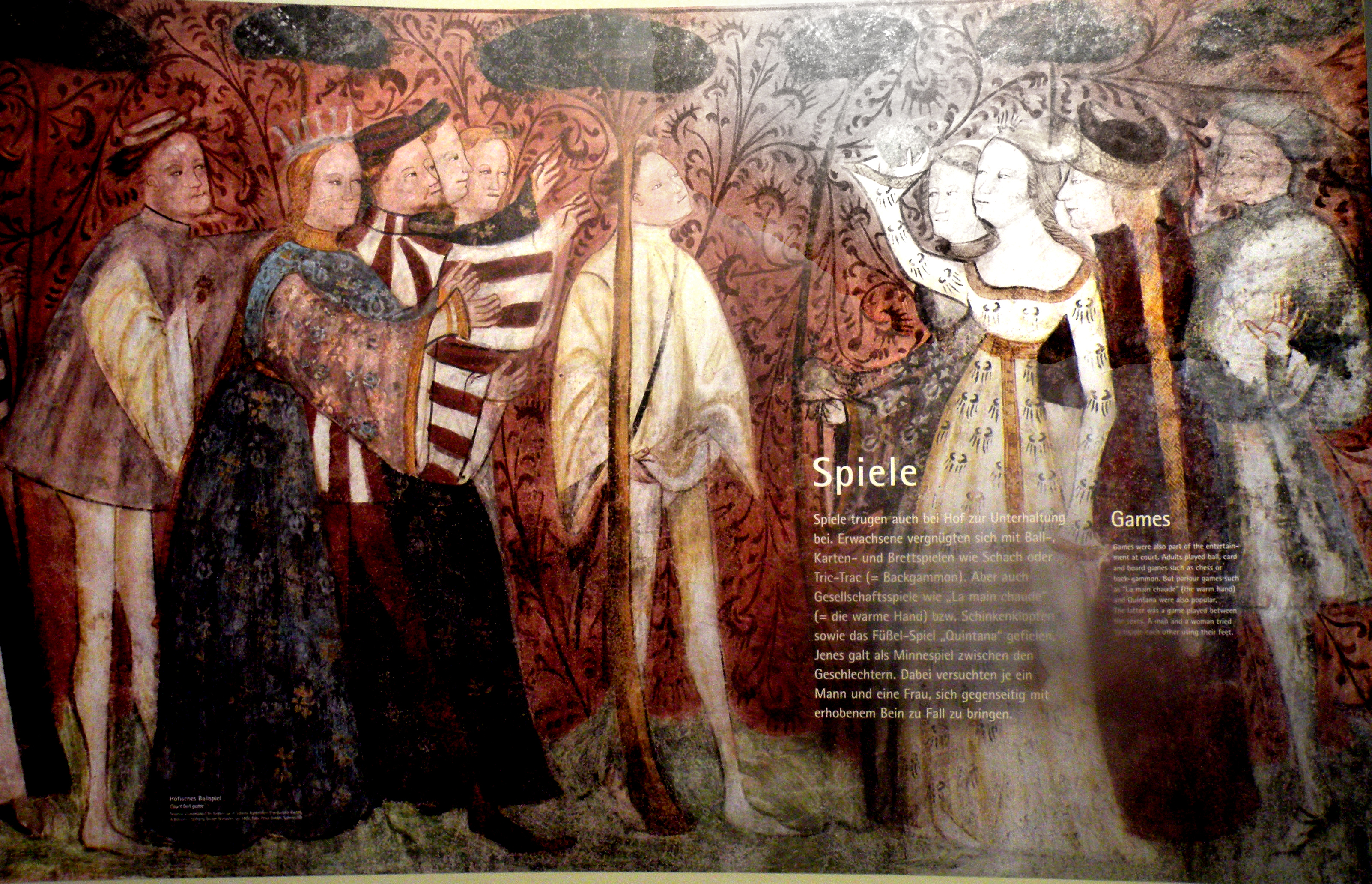 Play a man and a woman in turn throwing each other a round object. Not caught takes off some of his clothes.